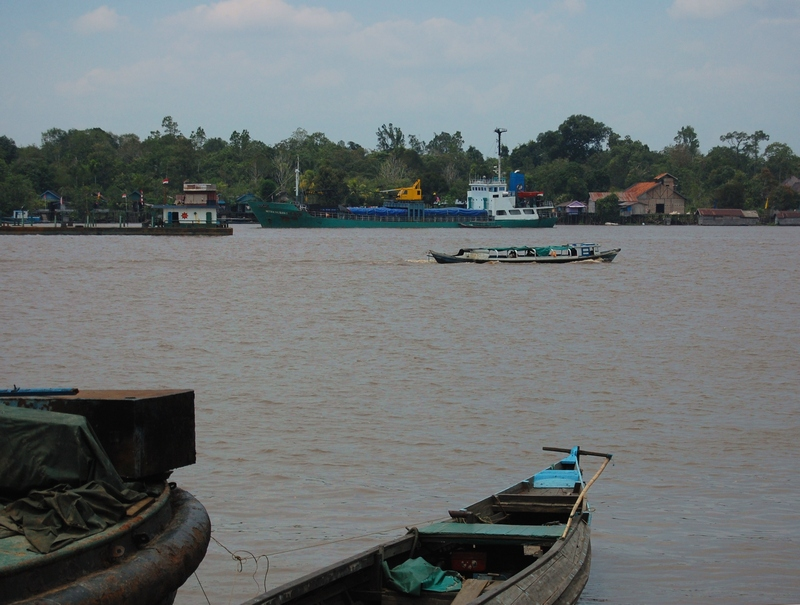 Mentaya River at Sampit, Central Kalimantan, Indonesia